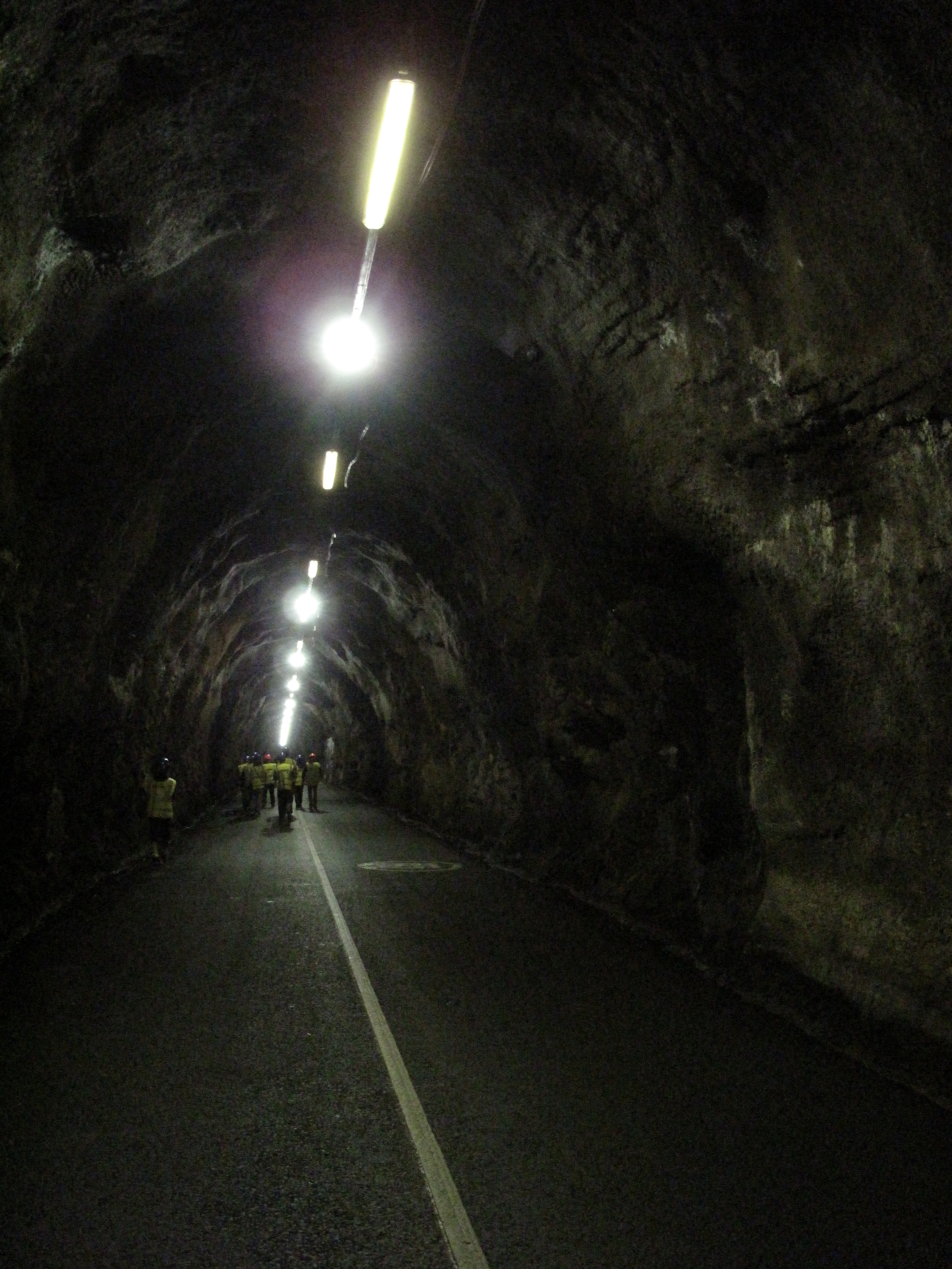 October 2014